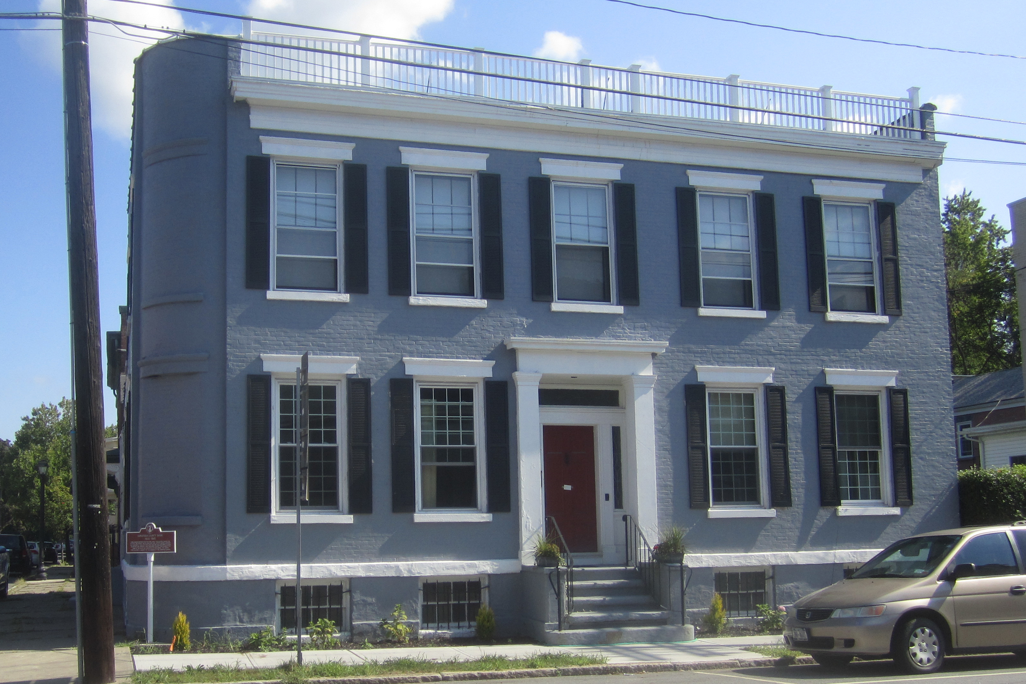 23 Broad Street, Waterford, New York. Former "Saratoga County Bank" or "Saratoga National Bank". Brick Federal-style building built 1842.